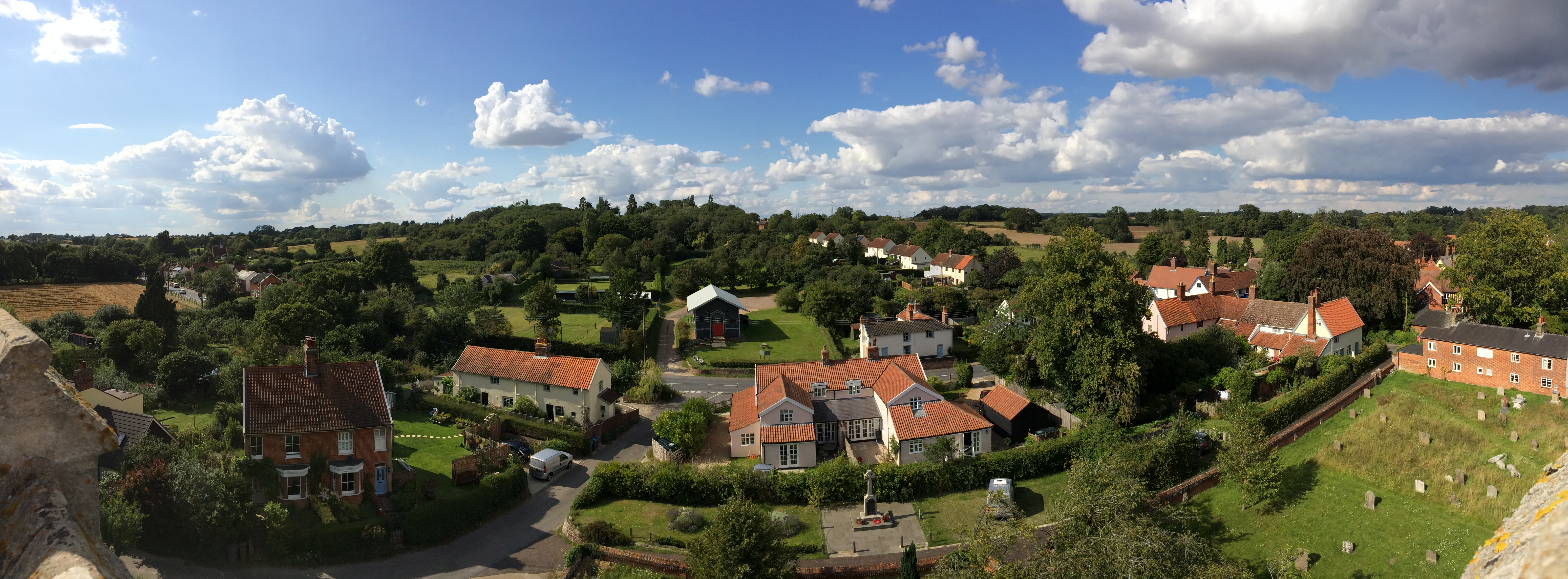 Panorama of the village of Peasenhall.